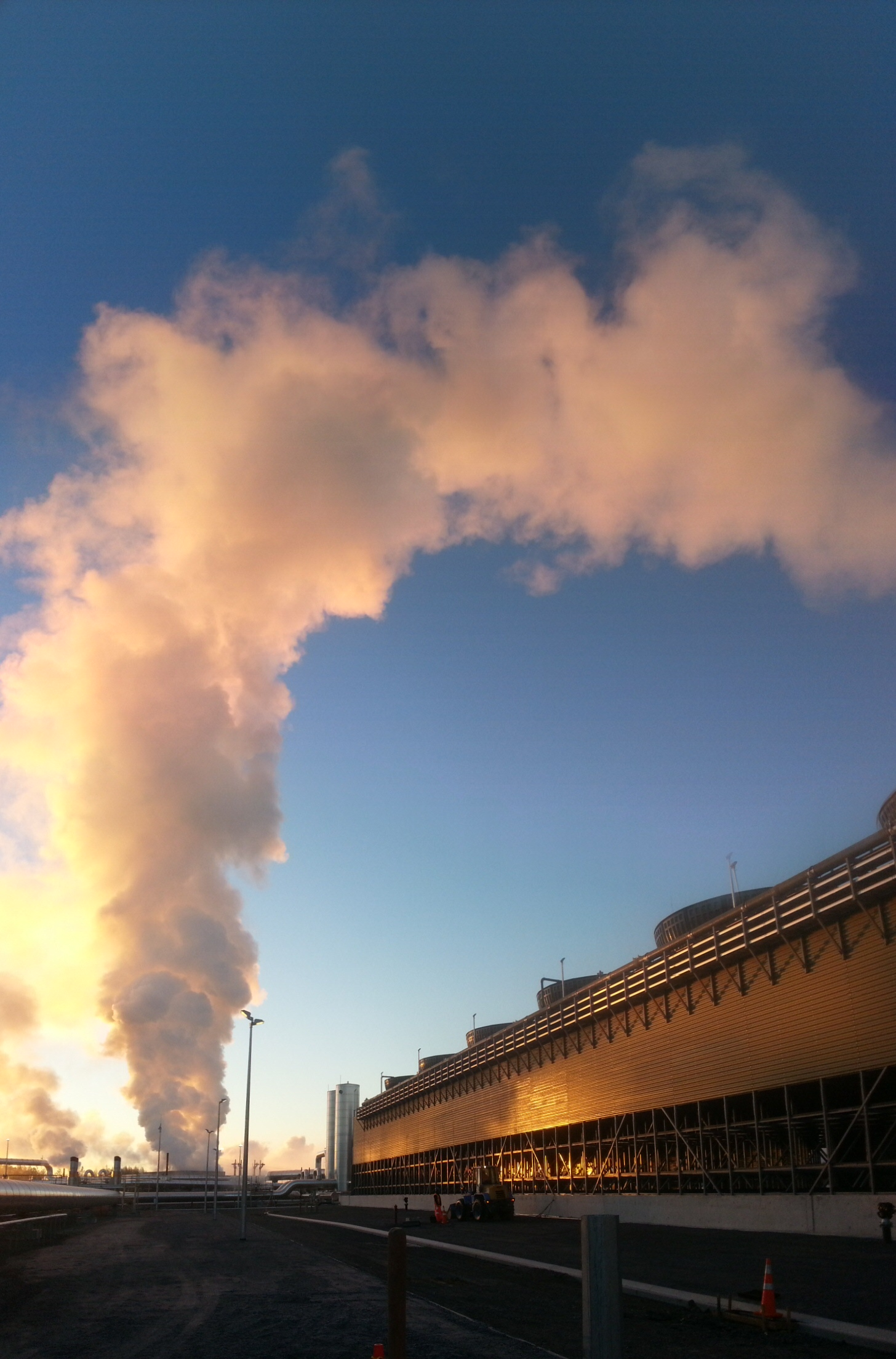 Taken early morning looking Eastwards away from turbine hall